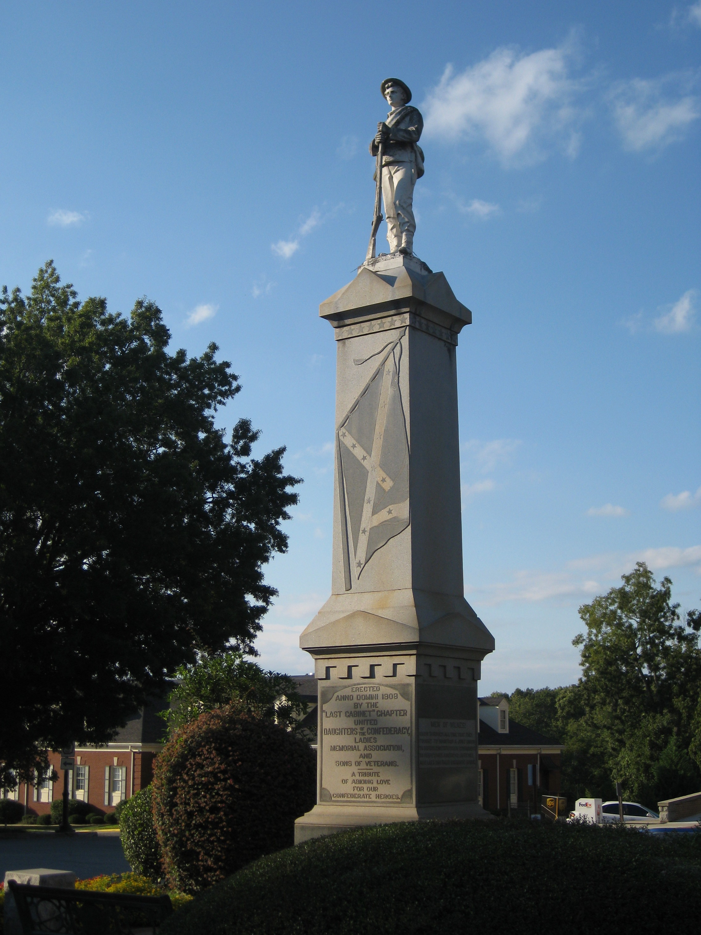 "A tribute of abiding love for our Confederate Heroes" - A monument to the veterans of the Confederacy in the town square of Washington, in Wilkes County, Georgia.